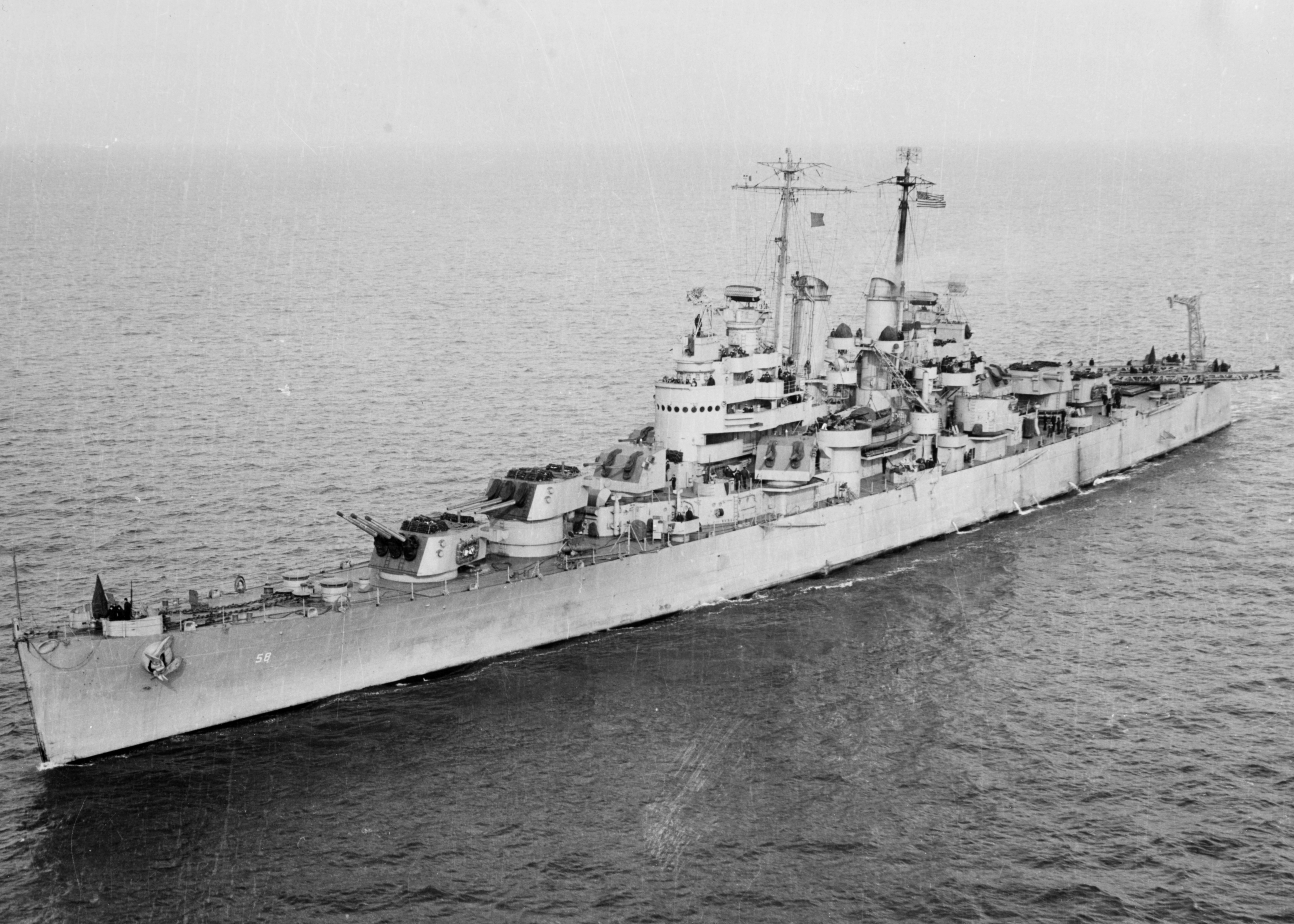 The U.S. Navy light cruiser USS Denver (CL-58) underway, circa in December 1942.